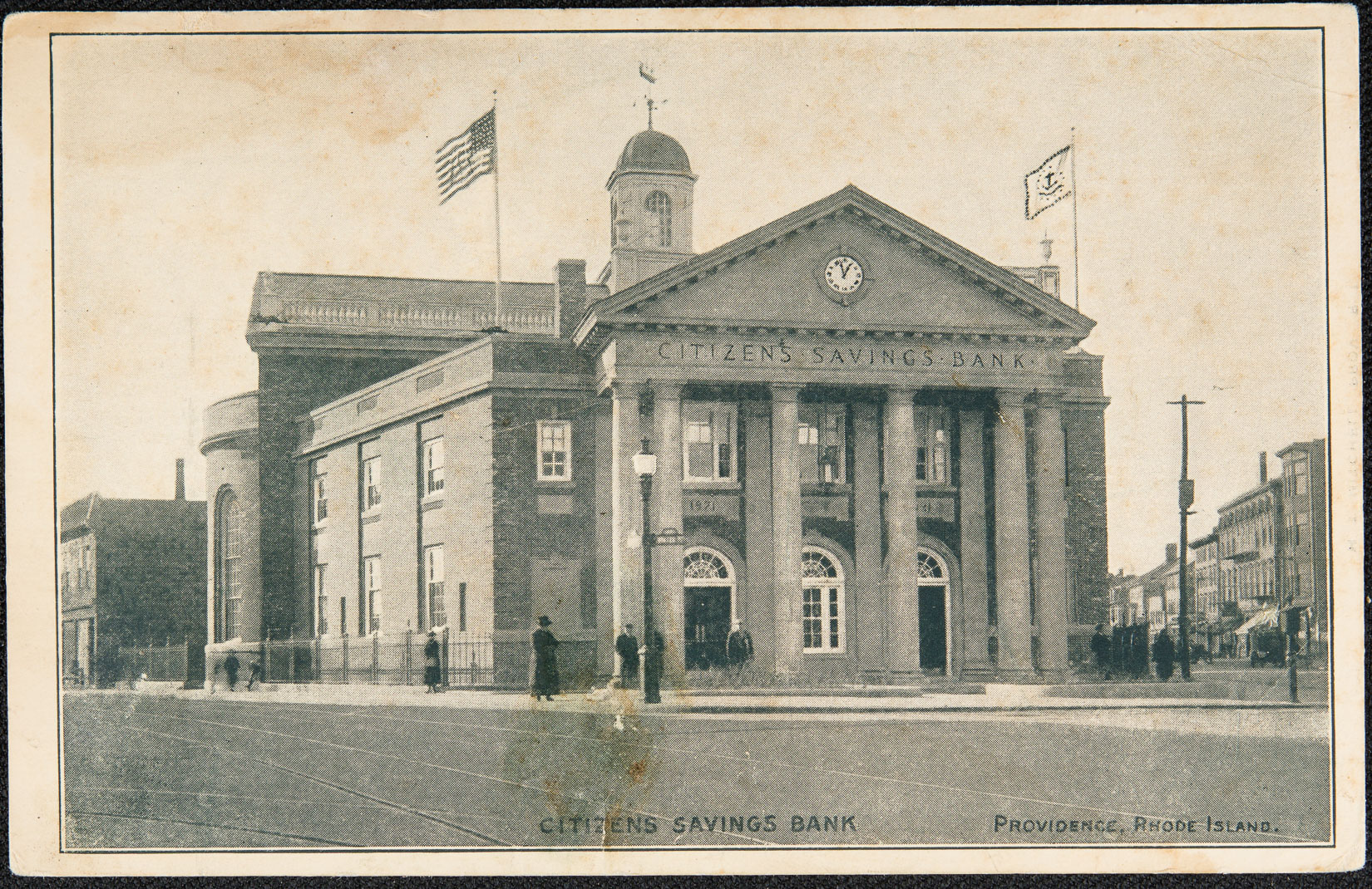 Citizens Savings Bank building in Canonicus Square (at the intersection of Westminster and Cranston Streets), built 1921. Providence Rhode Island. Title Citizens Savings Bank, Providence, Rhode Island Identifier PC6447 Description Exterior view of the Citizens Savings Bank, Providence, R.I., Providence, R.I. Transcription H.T. Mitchell, Prov., R.I. Date Created 1915 Publisher H.T. Mitchell Topics American Flag Banks Buildings Columns People Subject Geographic Providence (R.I.) Extent 5.5 x 3.5 inches Physical Location Rhode Island Collection, Providence Public Library Rights The Providence Public Library encourages the use of all items in the Providence Public Library digital collections. It is solely the patron's obligation to determine and ensure that use of material fully complies with copyright law and other possible restrictions on use. This work is licensed under a Creative Commons Attribution-ShareAlike 4.0 International License.